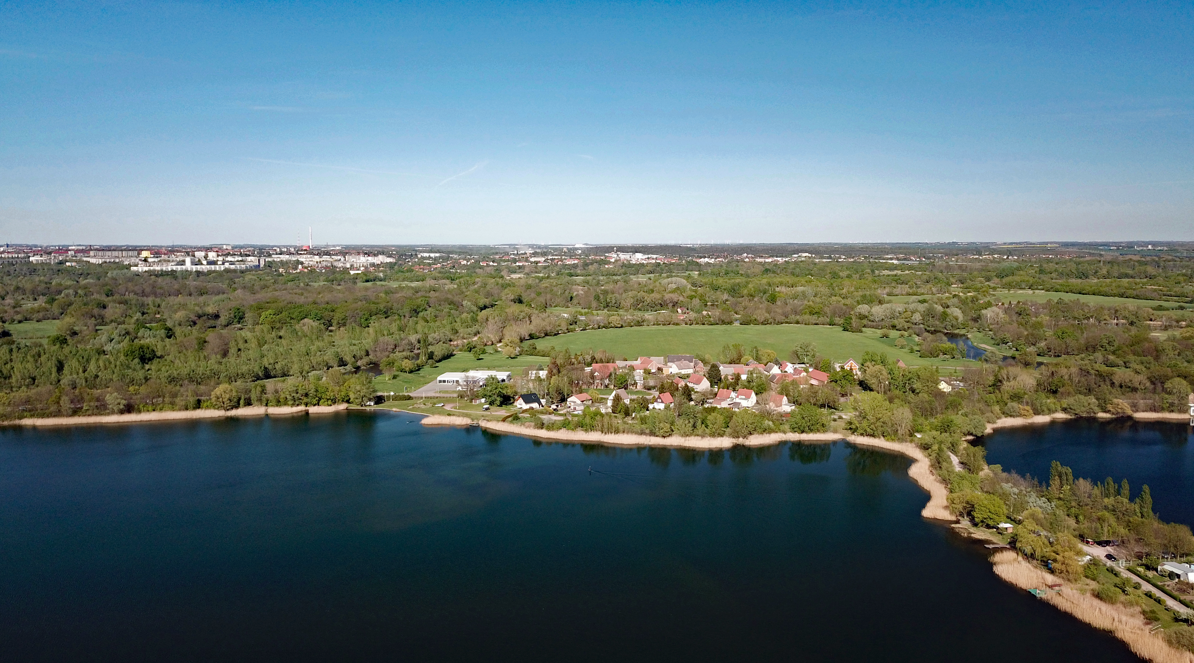 Rattmannsdorf, Schkopau, Saxony-Anhalt, Germany